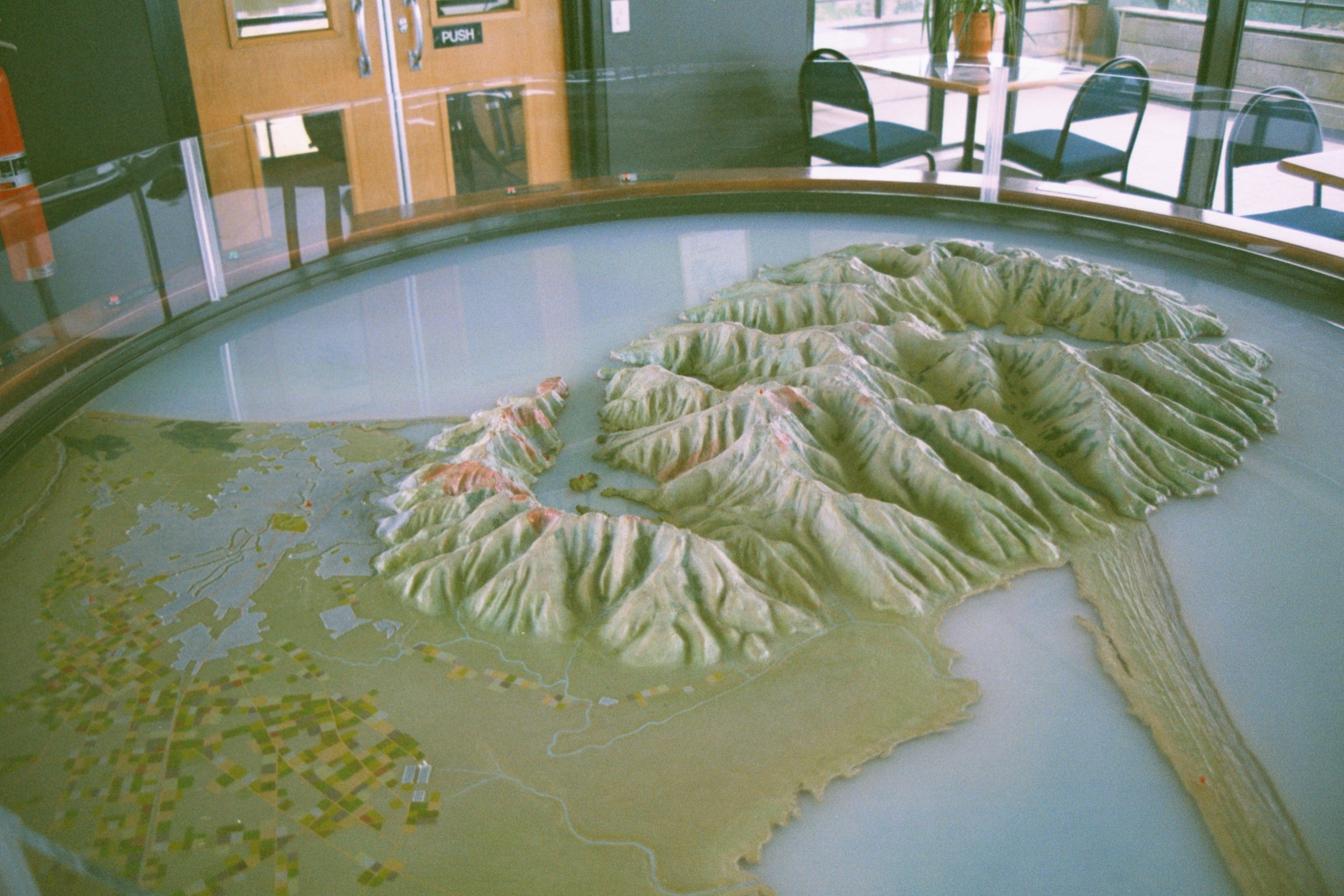 Model of Banks Peninsula, Canterbury, New Zealand. This is located at the top of the Christchurch Gondola on Mount Cavendish, Port Hills (which is the leftmost volcanic ridge in the photo). Christchurch is on the plains at the left, and Lyttelton Harbor is on the other side of the ridge.